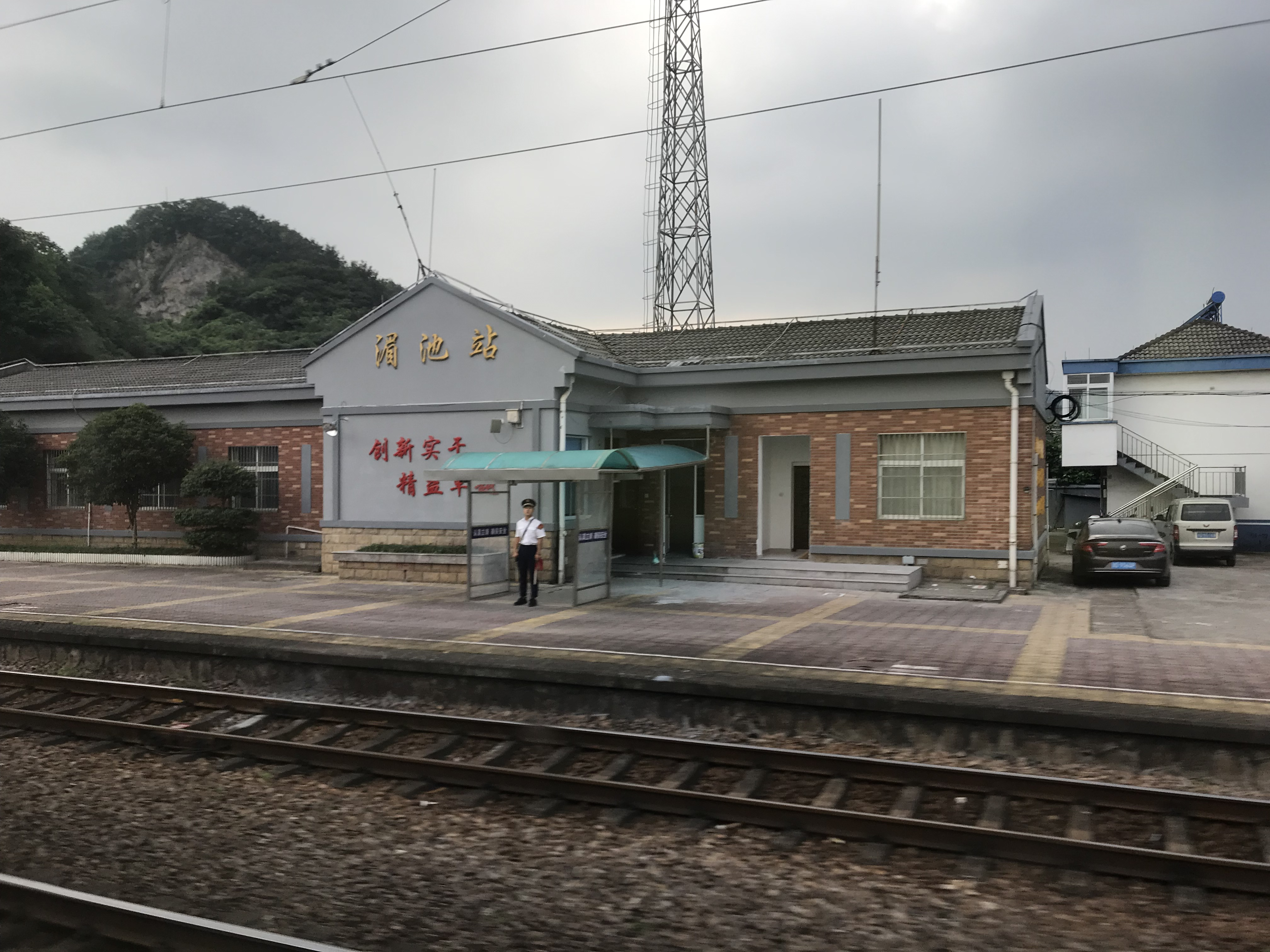 201907 Station Building of Meichi